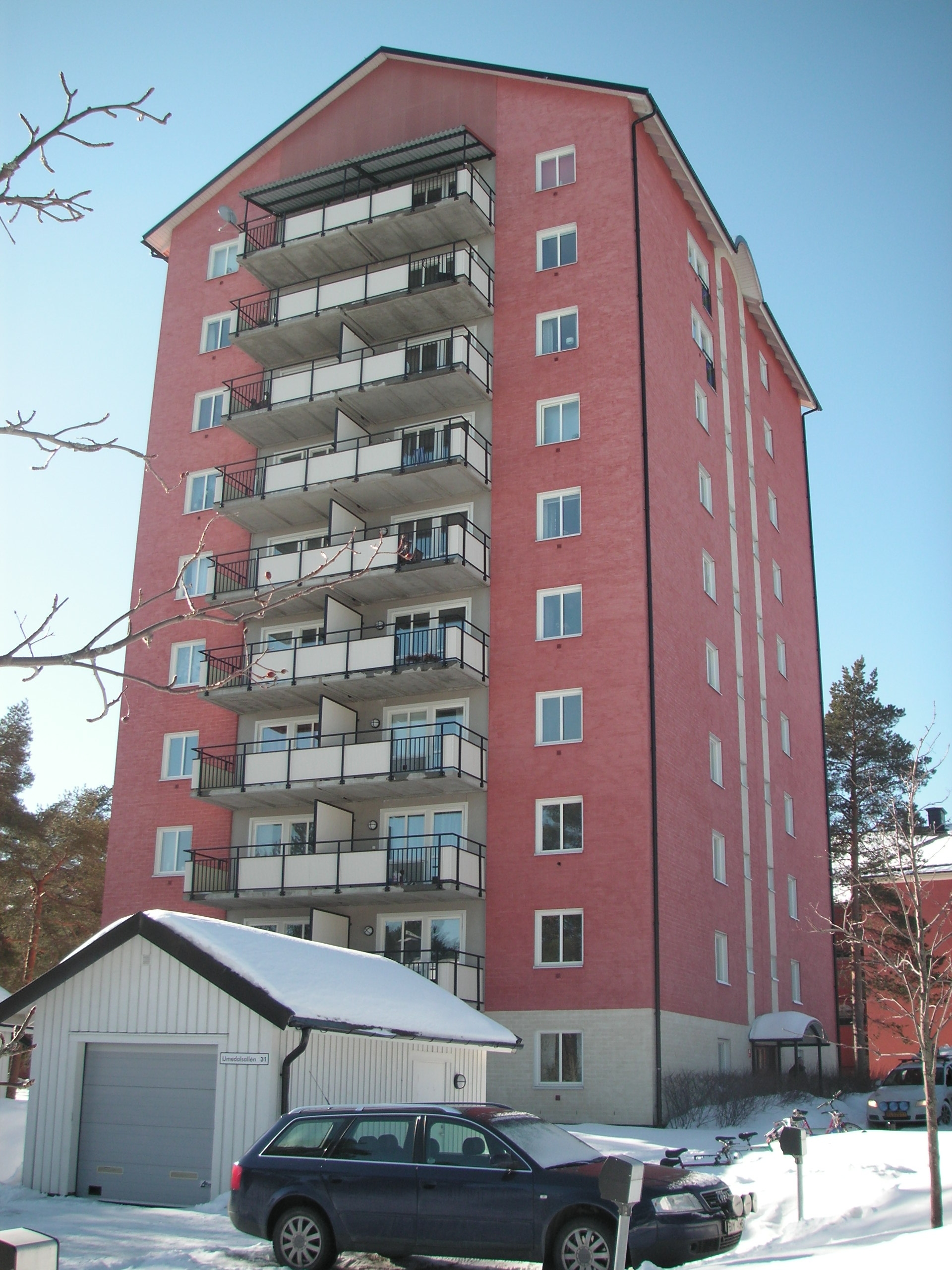 Apartment building "Umedalsallén 31" in western Umeå, Sweden.